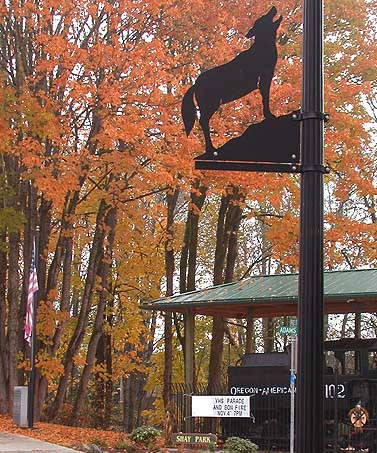 View along the main street of Vernonia towards Shay Park, showing locomotive (taken (Nov. 6, 2004).